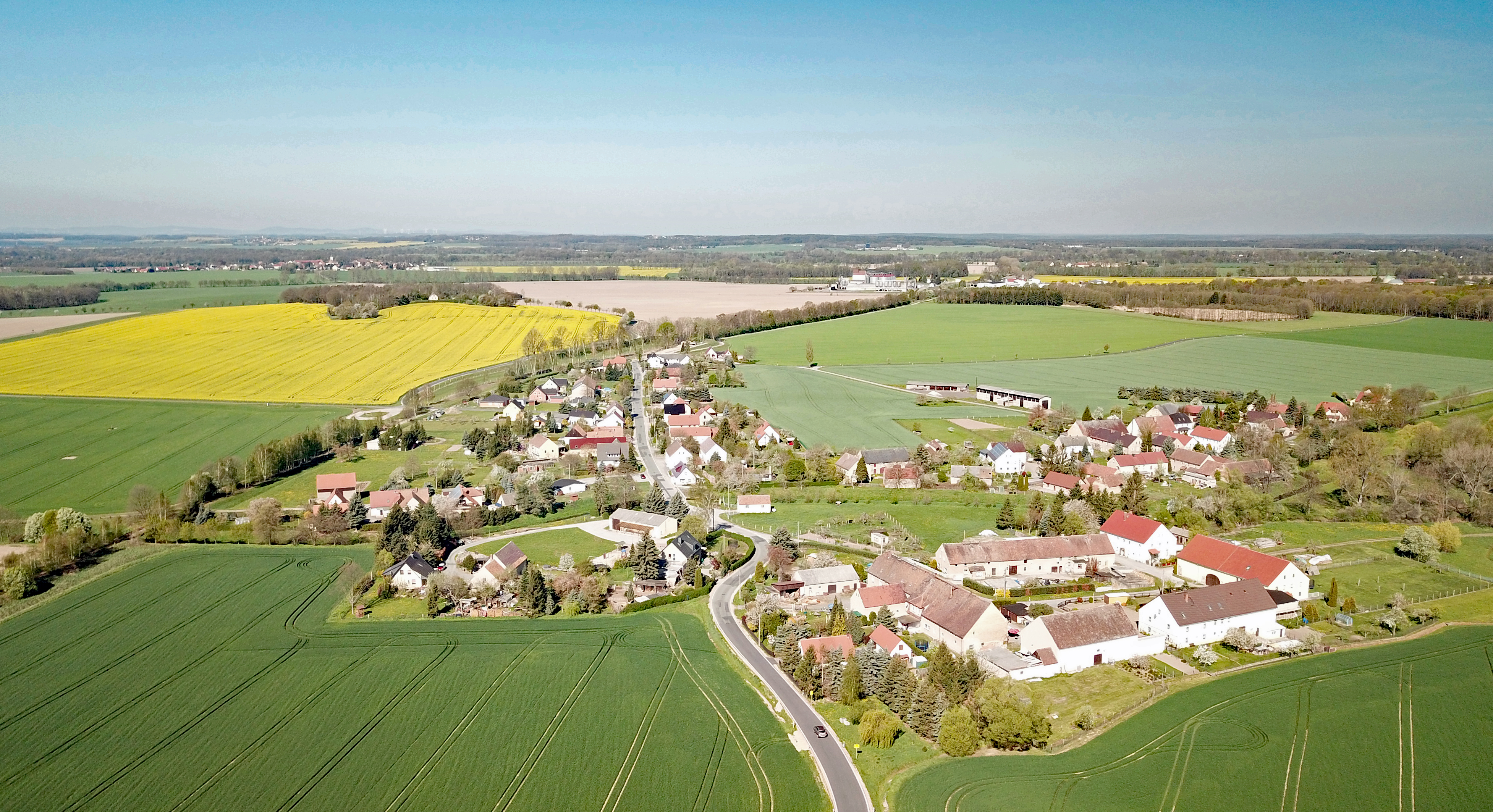 Gleina, Malschwitz, Saxony, Germany Hornjoserbsce: Powětrowy wobraz Hliny pola Malešec Dieses Foto wurde mit einem Quadcopter innerhalb der RMZ des Flugplatzes EDAB aufgenommen. Der Flugleiter wurde am Aufnahmetag telephonisch über Ort und Zeit informiert und hat zugestimmt. Der Flug erfolgte auf Grundlage der Allgemeinverfügung der Landesdirektion Sachsen zur Erteilung der Betriebserlaubnis für unbemannte Luftfahrtsysteme und Flugmodelle gemäß § 21a LuftVO und Zulassung von Ausnahmen von Betriebsverboten gemäß § 21b LuftVO für den Freistaat Sachsen.